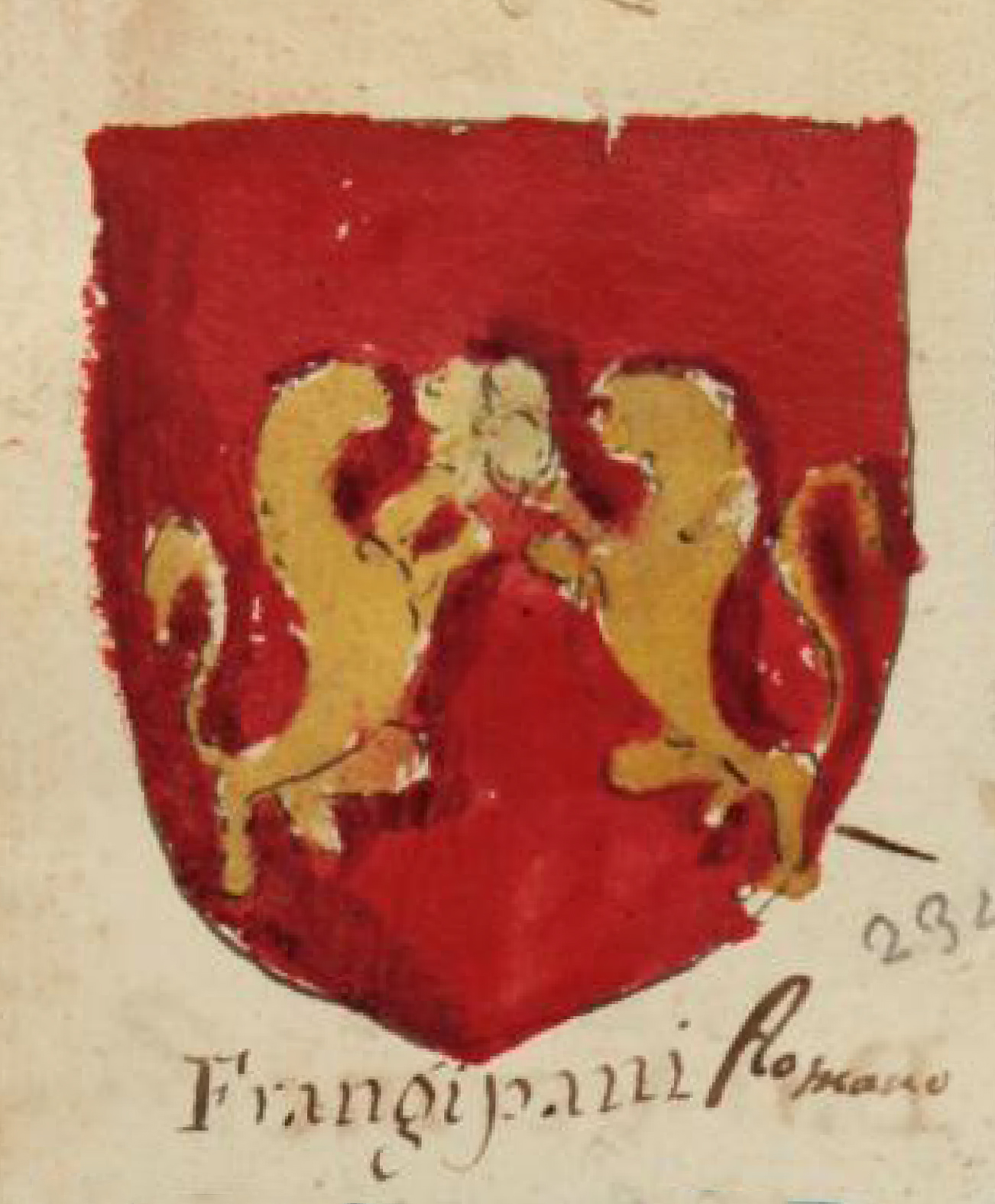 Coat of arms of Frangipani, from a manuscript by Angelo Maria da Bologna, circa 1700, Modena, Italy.